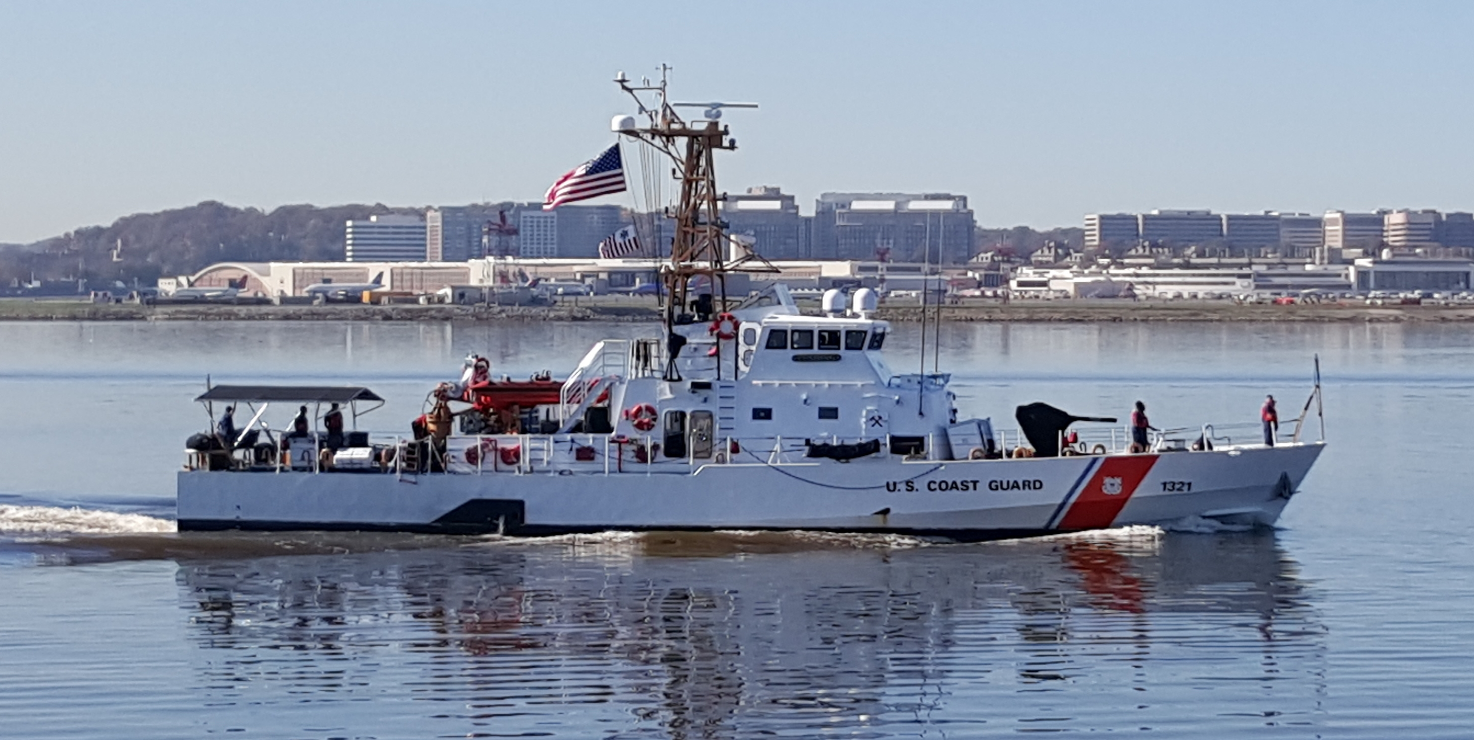 Photo of starboard side of USCGC Cushing cruising north on Potomac River with National Airport in background, taken from shore with Samsung S6 on 03 November 2015.